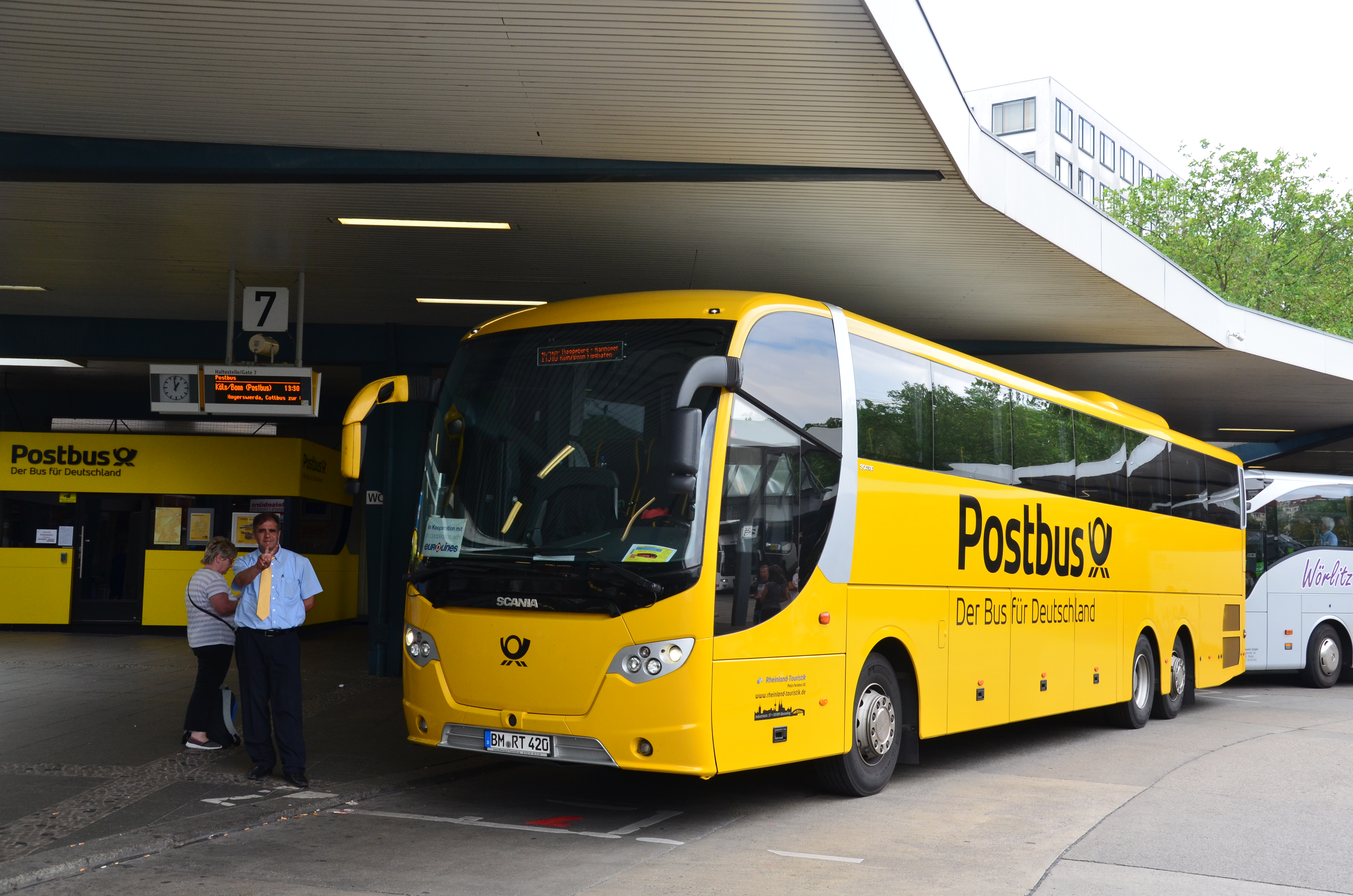 Coach of Postbus, in Berlin ZOB.